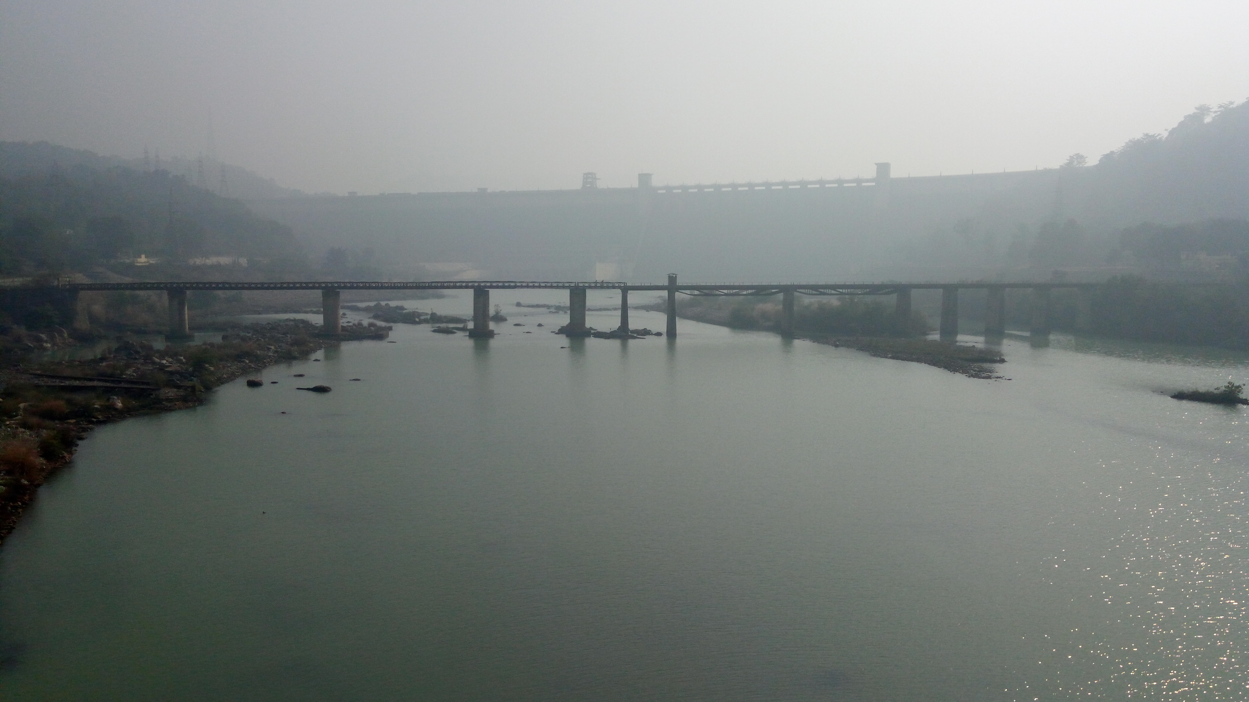 It is a dam that is located in Renukoot,Uttar Pradesh,India and it also has a history as it is also being printed behind Indian currancy